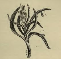 The tineina of southern Europe: Urodeta hibernella